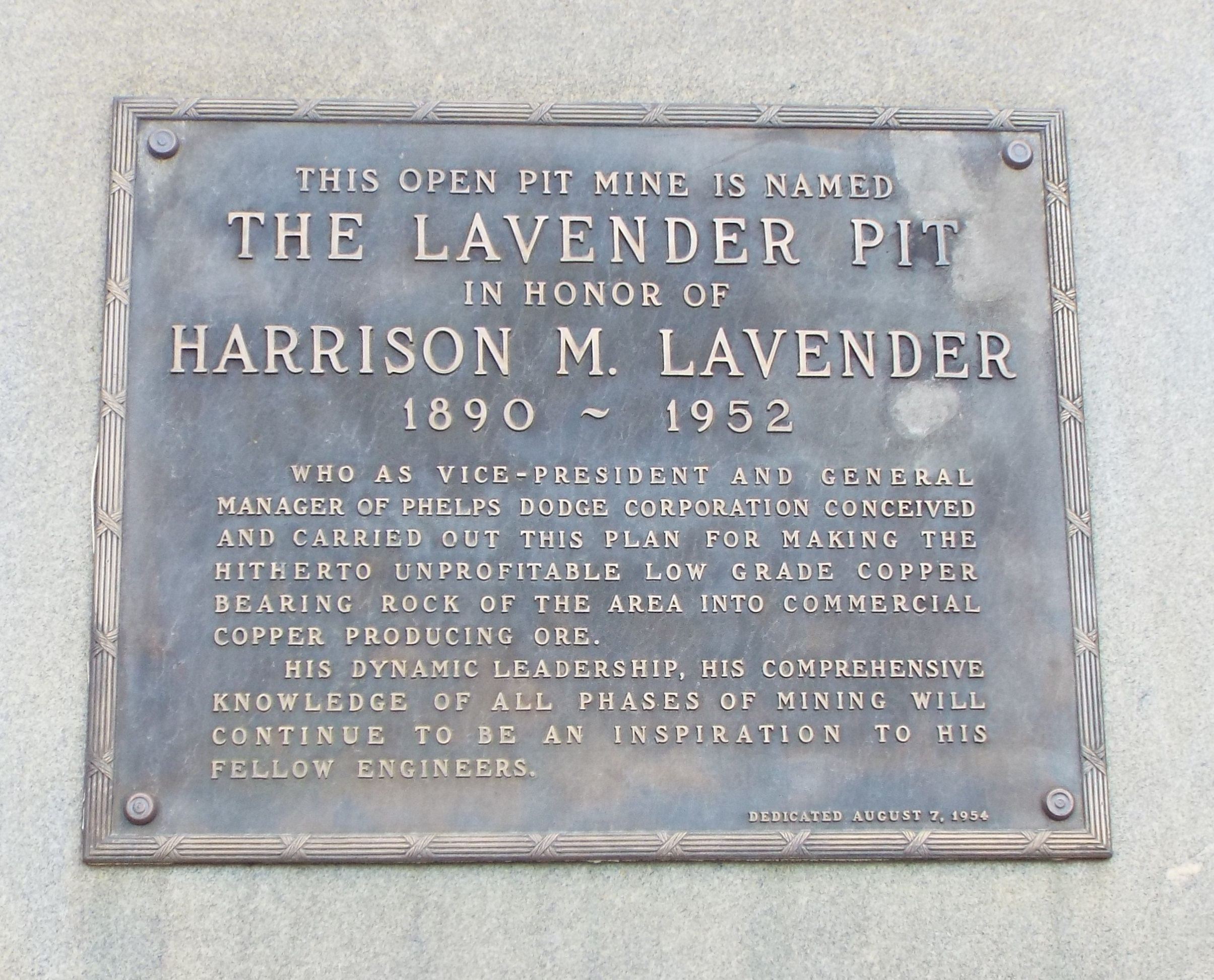 The Lavender Pit marker in Bisbee, Az